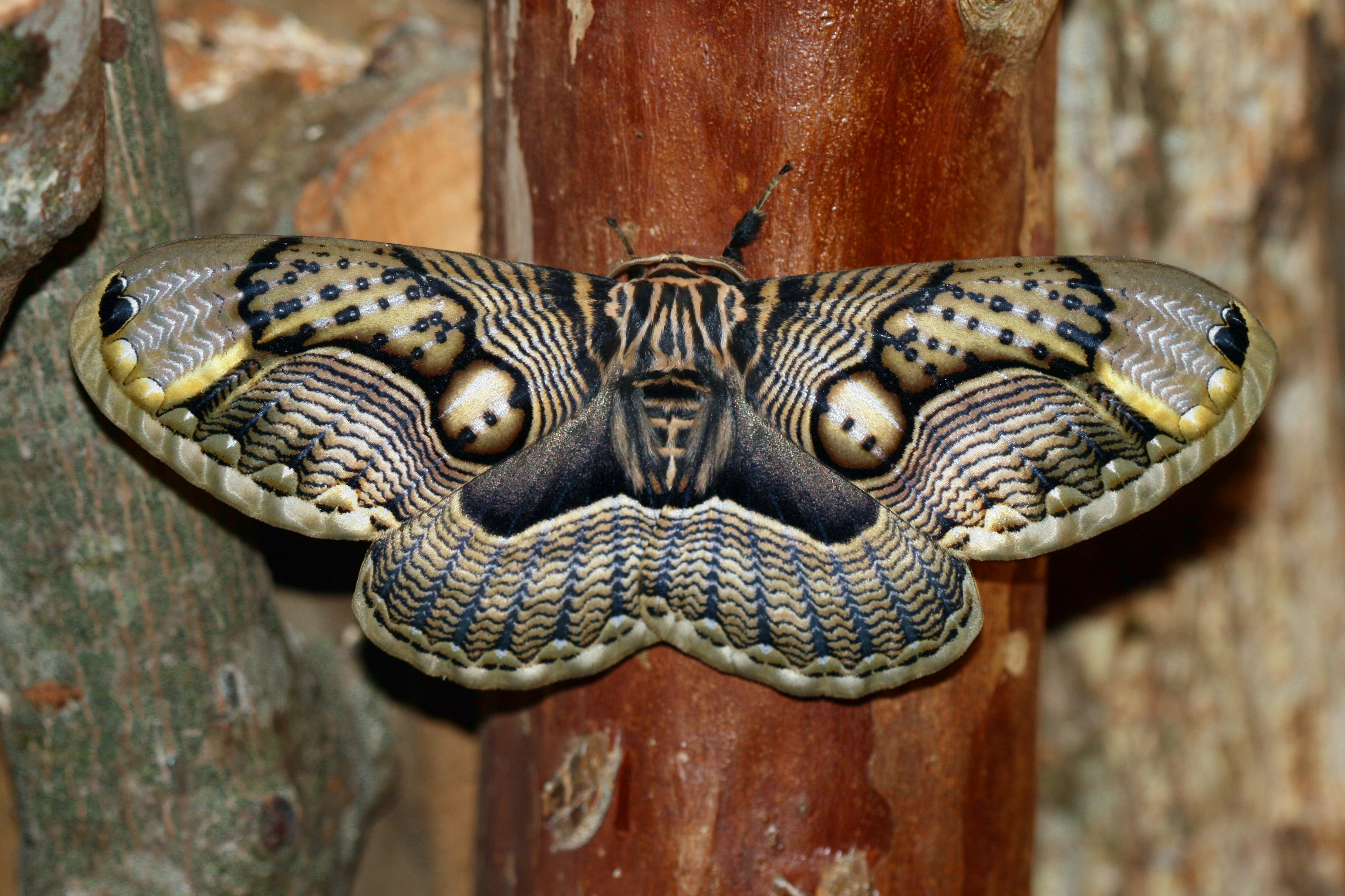 A Brahmeid Moth at Leader Village Hotel, Buluowan, Taiwan